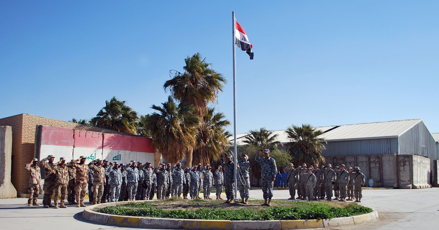 The Iraqi Army, Iraqi National Police and Soldiers from Company C, 1st Battalion, 27th Infantry Regiment, attached to 1st Battalion, 21st Infantry Regiment, "Gimlets," 2nd Stryker Brigade Combat Team, "Warrior," 25th Infantry Division, Multi-National Division ñ Baghdad, watch the Iraqi national flag as it is raised above Joint Security Station Salamiyat, west of Baghdad, Jan. 1. The raising of the flag symbolizes the implementation of the new Security Agreement which took effect Jan. 1.